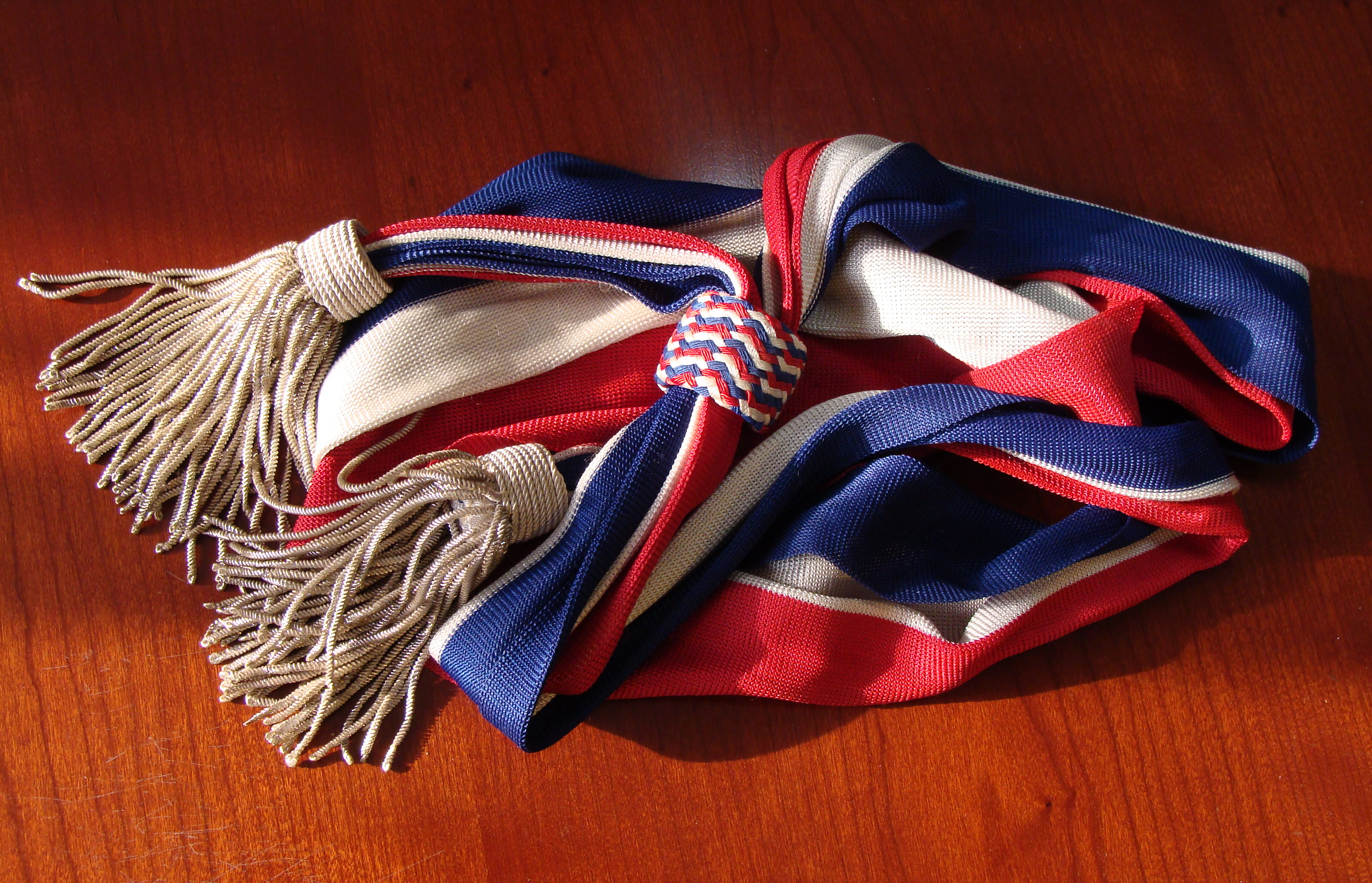 tricolor sash of a french police officer (superintendent)